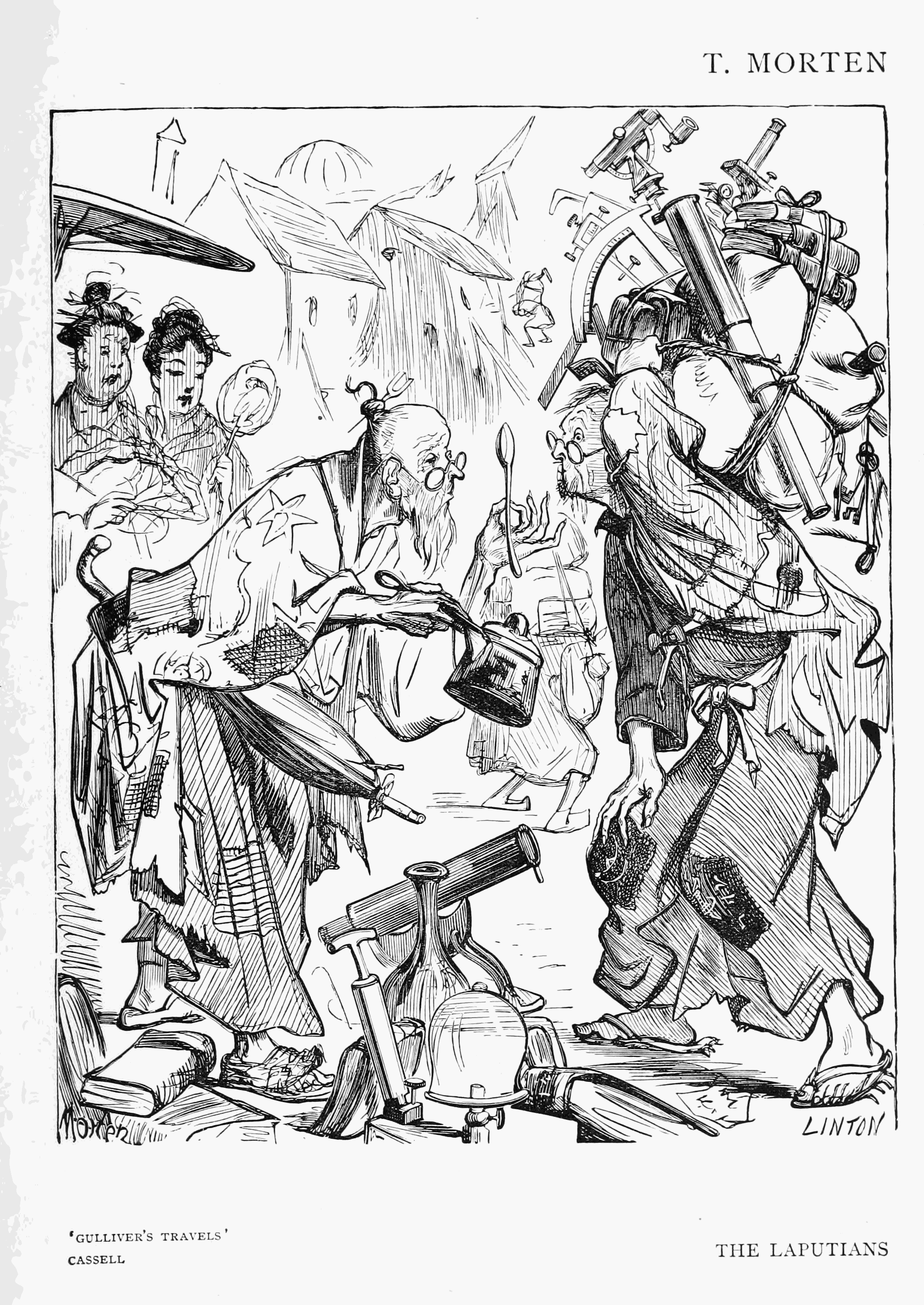 See the book's list of illustrations . Files in this book's category retain page numbers and page order.